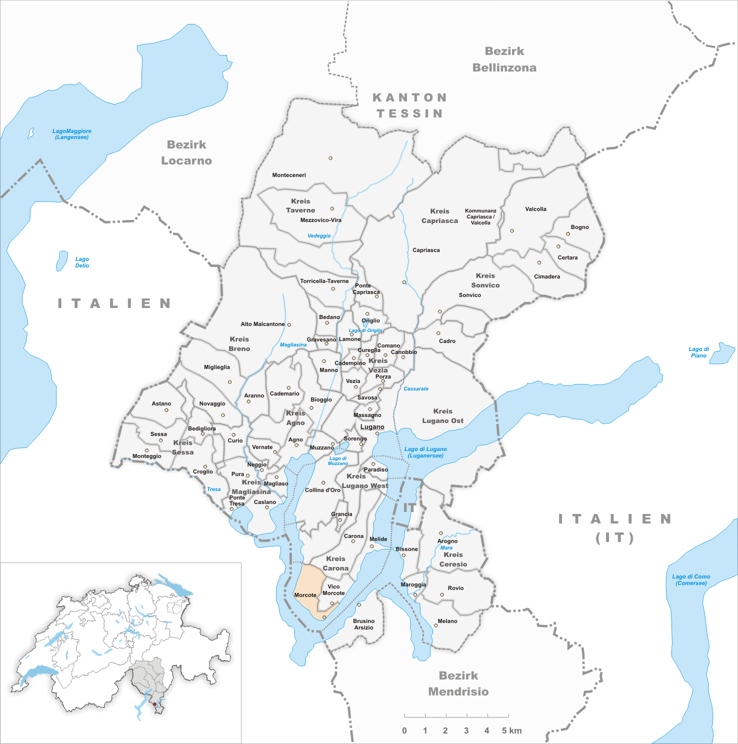 Municipality Morcote